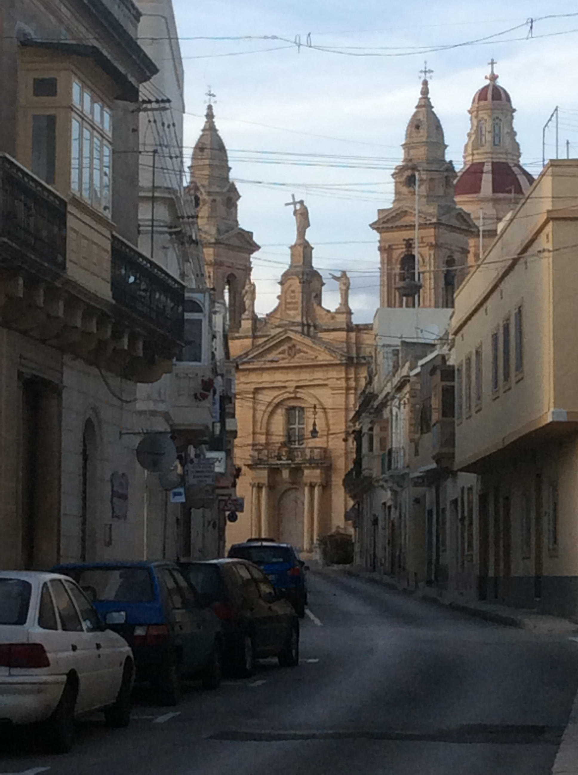 Saint Andrew's Church Luqa Malta